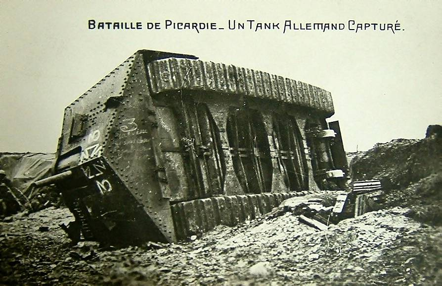 German A7V tank "Elfriede" captured by French Troops at Villers-Bretonneux, 24-Apr-1918. French Postcard 1918